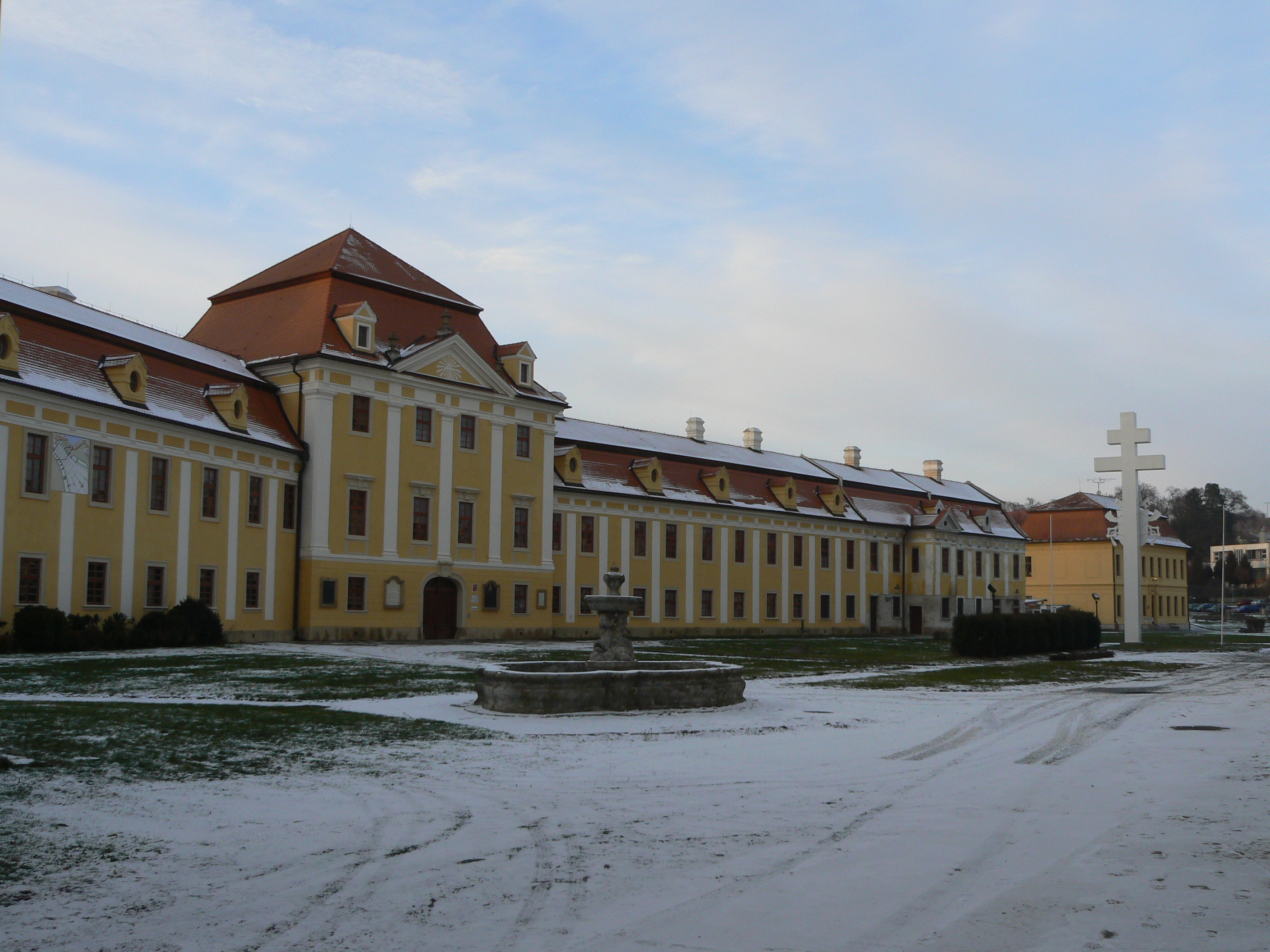 Stojan's Comprehensive School in Velehrad